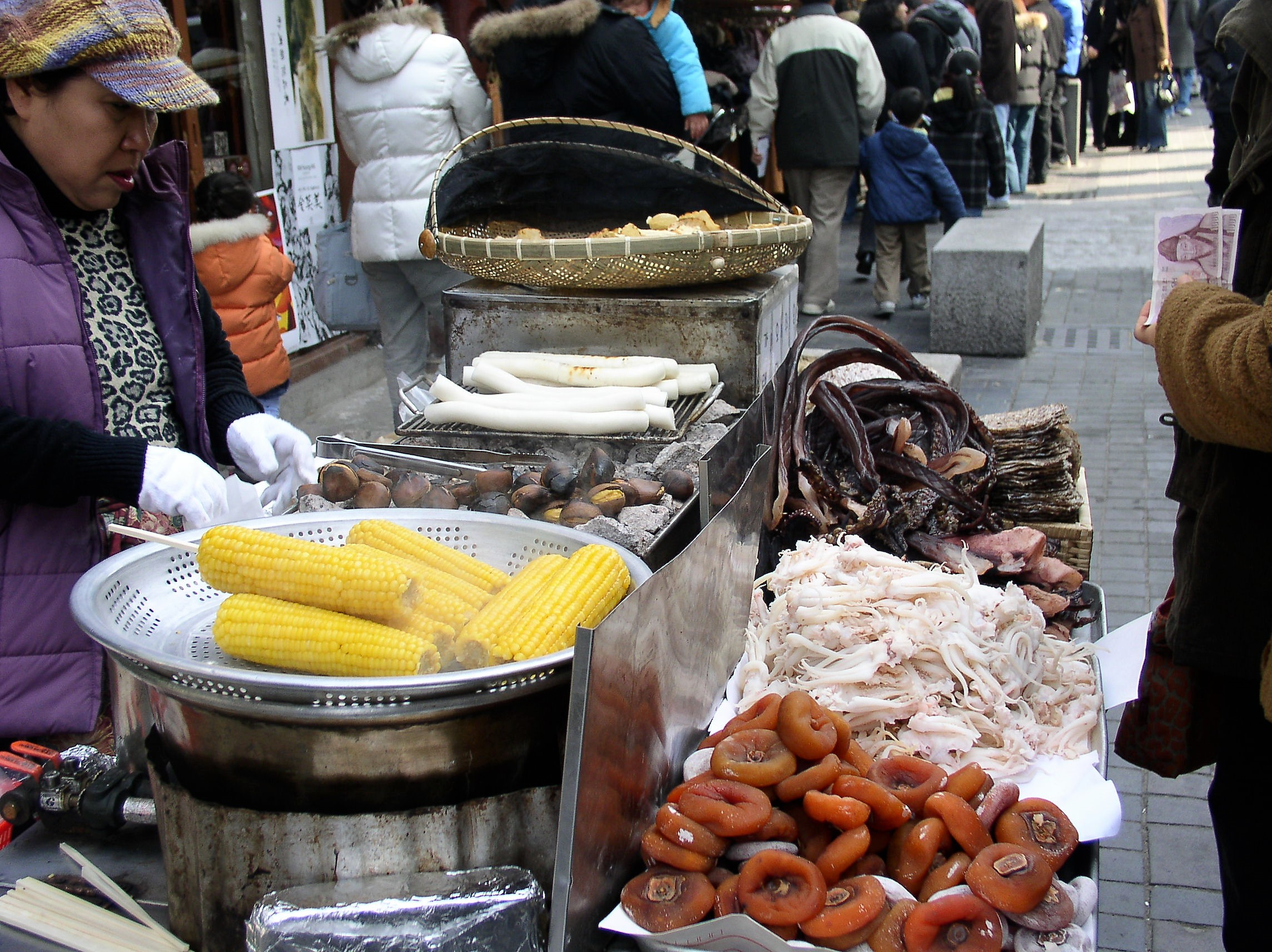 A food stall in Seoul. Steamed cones, grilled chestne and dduck(white rice cake), dried persimmos, cuttlefish, squid, octopus and filefish.